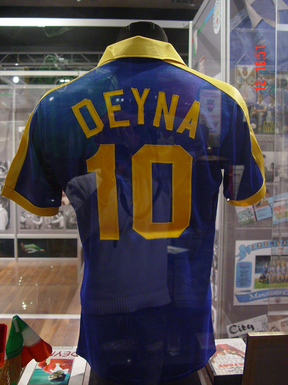 Oryginal t-shirt San Diego Sockers